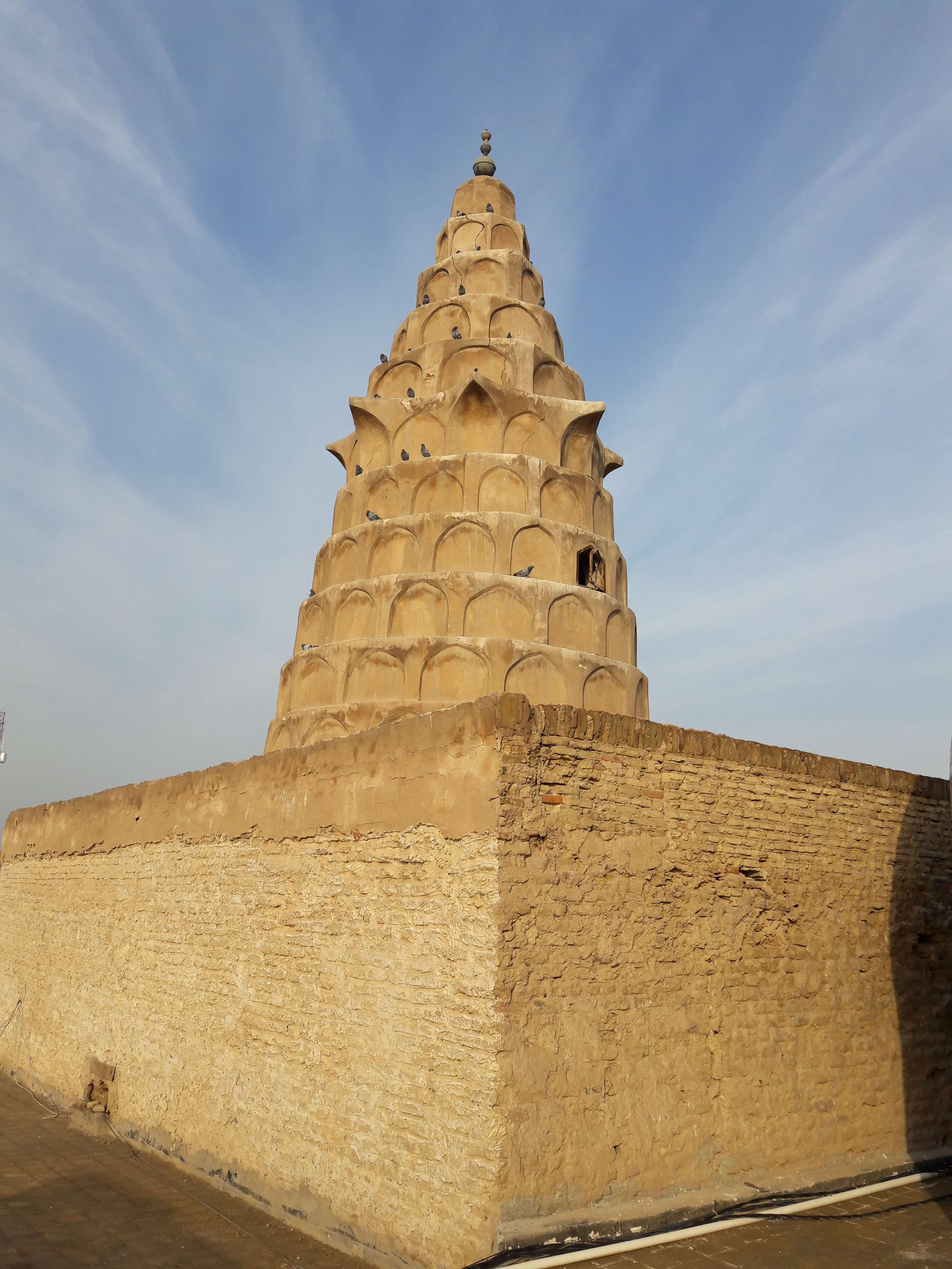 the historical conical dom on the tomb of the prophet Dhul-Kifl ( Ezekiel) it is one of the few muqarnas domes in iraq. Аҧсшәа: القبة التأريخية أعلى ضريح النبي ذو الكفل أو كما يعرف لدى اليهود (حزقيال) في قضاء الكفل بمحافظة بابل في العراق وهي من طراز القباب المخروطية المقرنصة